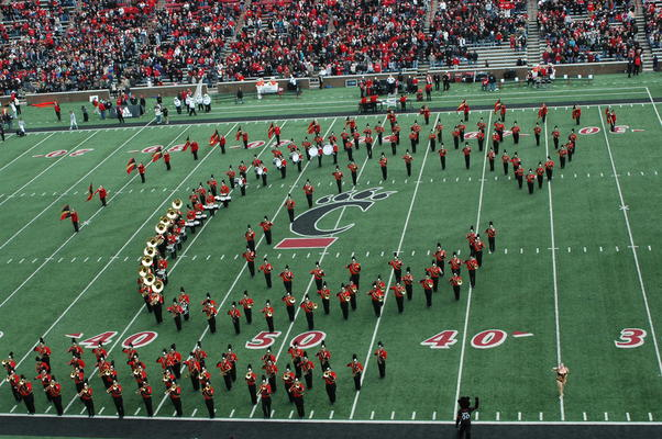 The UC Bearcat Band forms a C-Paw during Halftime.